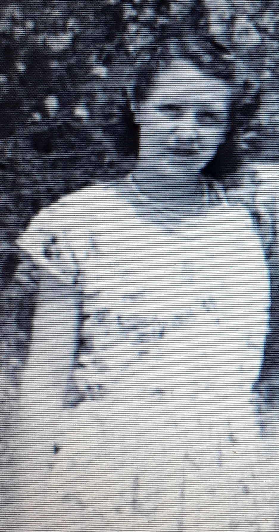 Lucky Luciano with Igea Lissoni